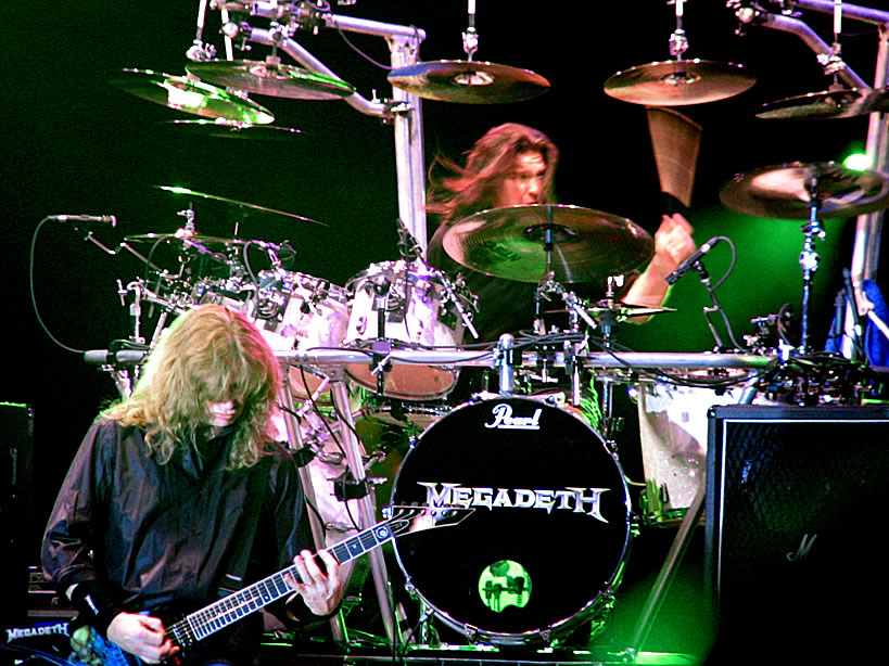 Megadeth live in Bucharest, June 15th, 2005